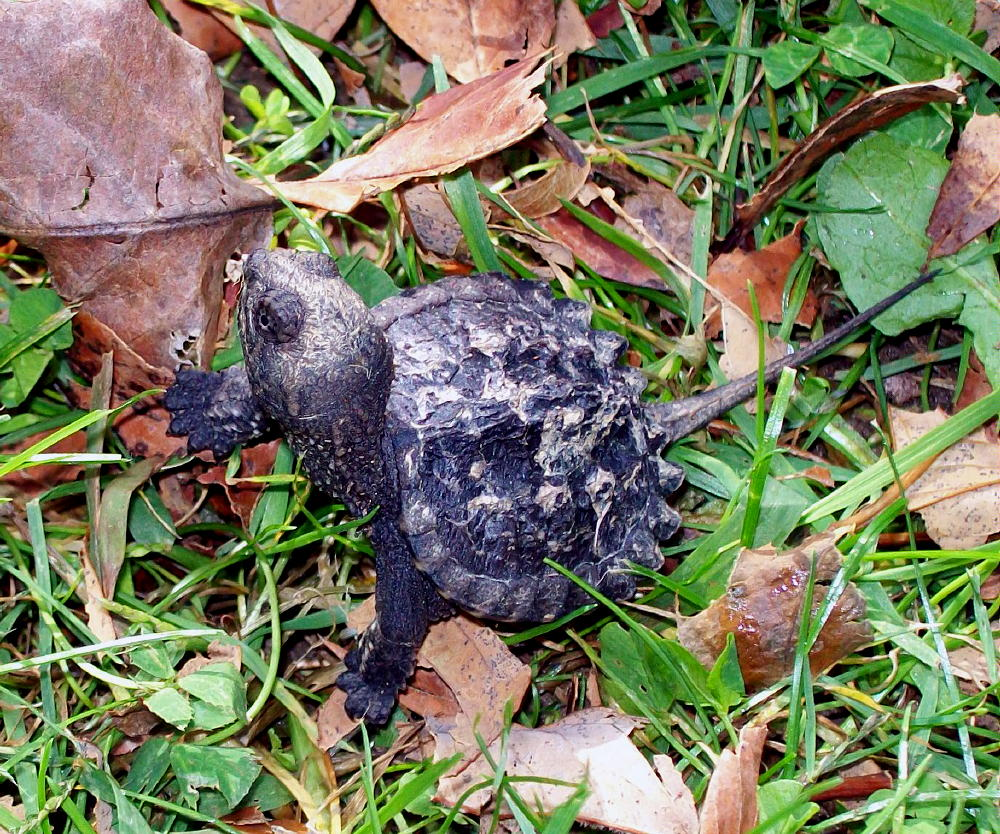 Baby Snapping Turtle Central PA